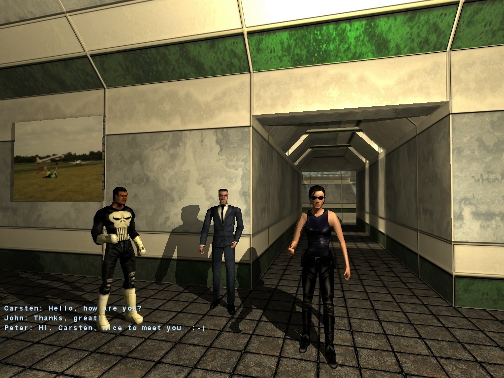 A screenshot of an online internet/network game in the Cafu Engine.